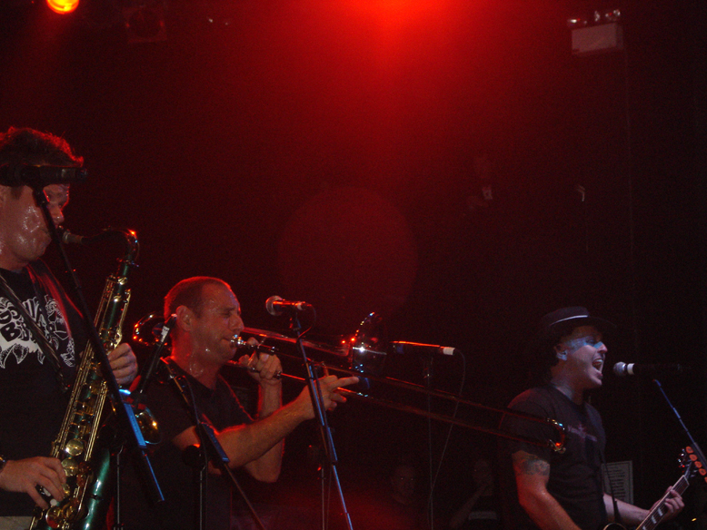 Less Than Jake in concert in Newcastle on 11 Sept 2006